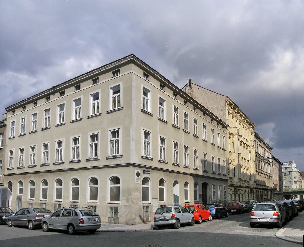 Thelemanngasse 8 in Hernals, Vienna. This is where the author Frederic Morton grew up.